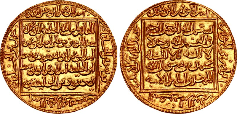 ISLAMIC, al-Maghreb (North Africa). Almohads (al-Muwahhidun). Abu Muhammad 'Abd Allah. AH 621-624 / AD 1224-1227. AV Dinar (29mm, 4.63 g, 12h). Unnamed mint. Undated issue. Basmala, al-ḥamdu lillāh wa hadah, kalimat aṭ-ṭaiyibah and al-mahdi imam al-ummat in five lines within double linear quadrate frame; amir al-mu’minin abu muhammad/’abd Allah bin al-imam/al-mansur amir al-mu’minin/bin amir al-mu’minin in outer margins / Genealogy in five lines within double linear quadrate frame; genealogy continuing in outer margins. Hazard –; Lavoix –; Album A487; ICV –. Choice EF. Extremely rare.